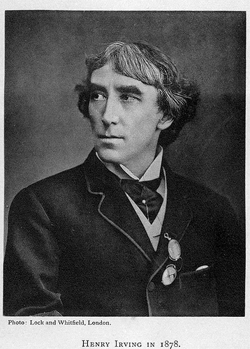 Henry Irving in 1878